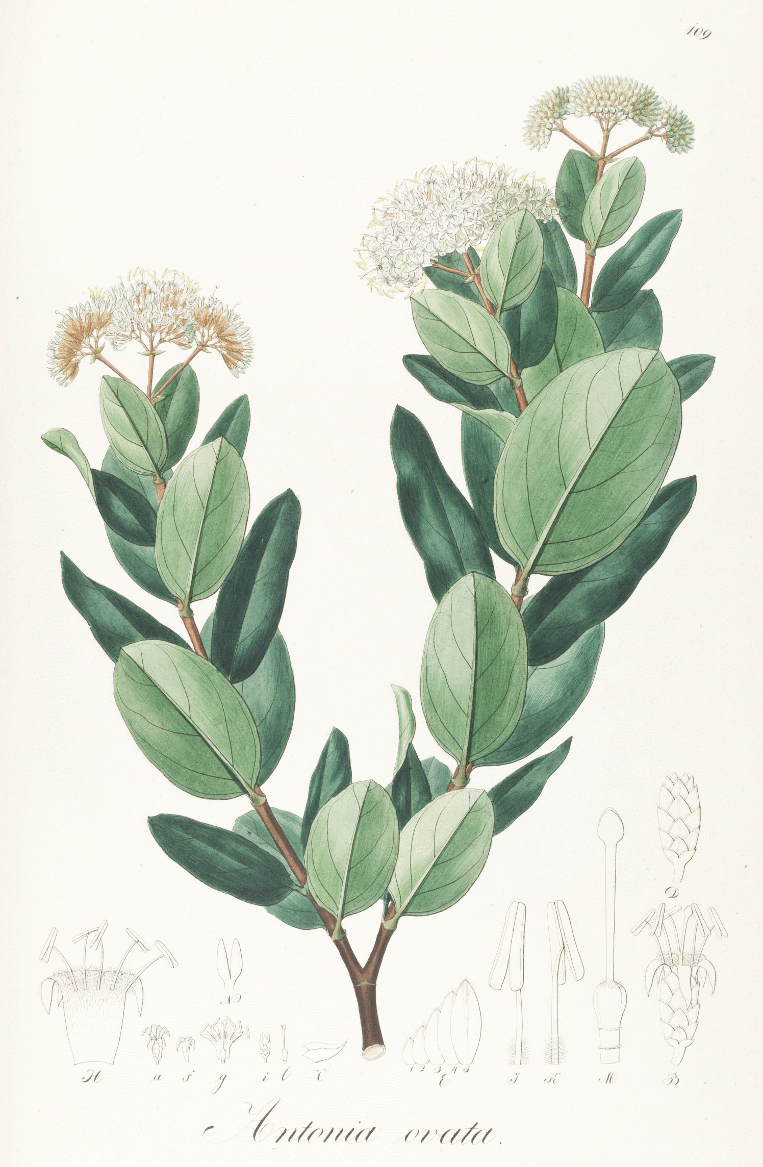 Plate from book